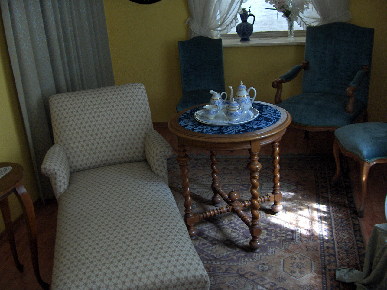 Room where the dead body of the crown prince was laid to rest; Mayerling, scene of the drama with Crown Prince Rudolph of Austria